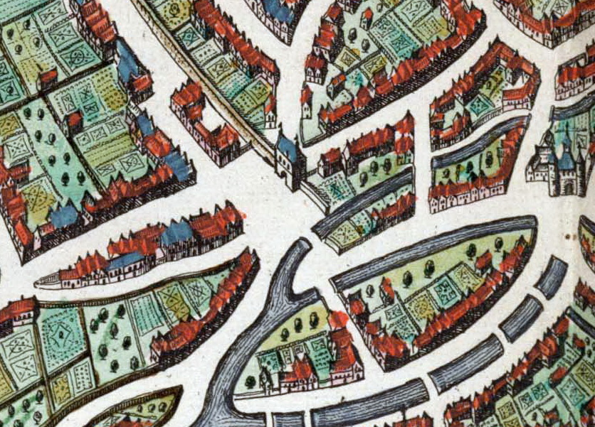 Maastricht, the Netherlands. Detail of a map of Maastricht from the Atlas Maior, published by Blaeu (Amsterdam, 1652), showing the first Medieval city wall around Lenculenpoort (center) and Looierspoort (right).